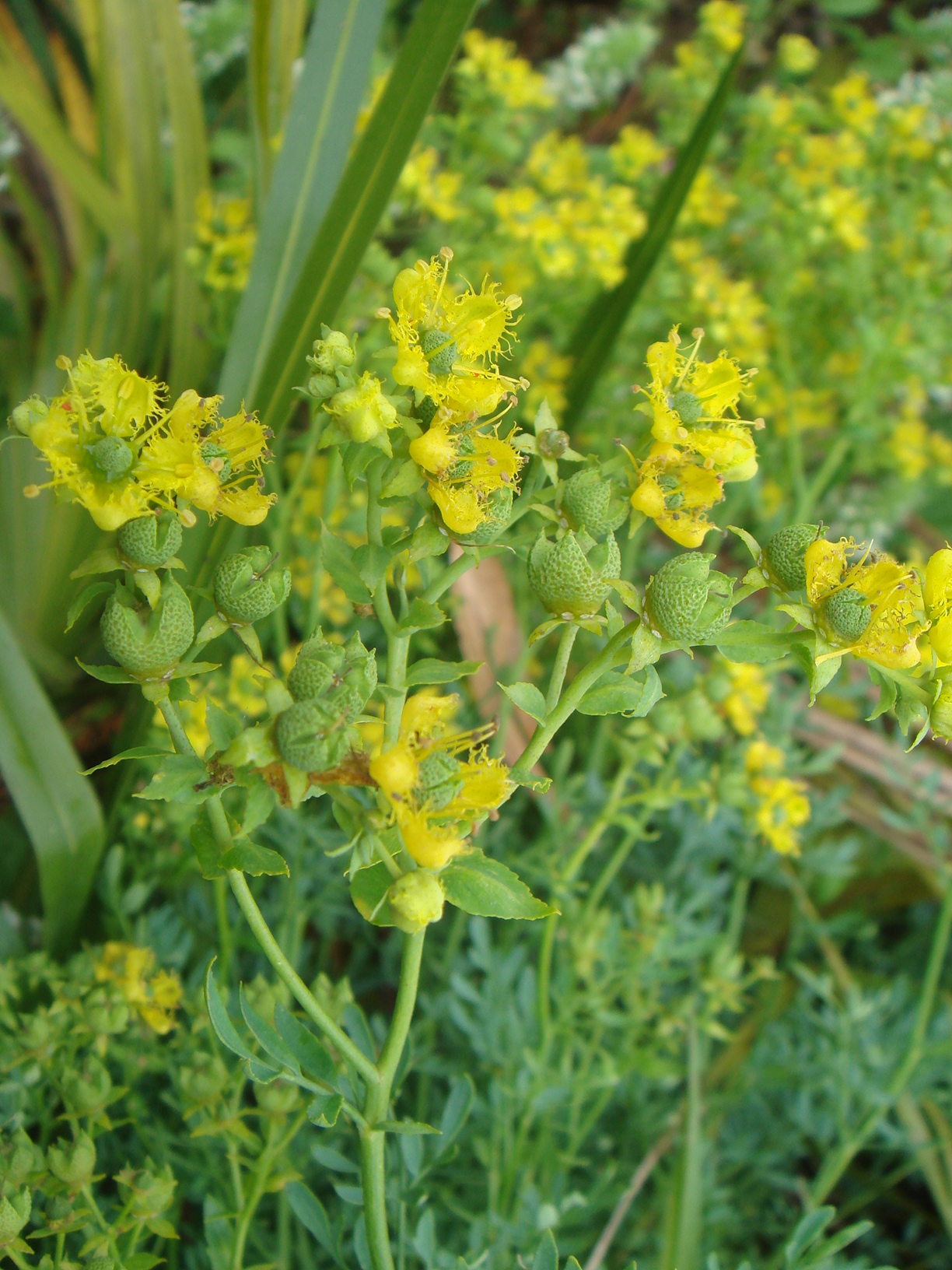 Fringed rue. Spain, Ceuta.